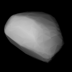 3D convex shape model of 3749 Balam, computed using light curve inversion techniques. J. Hanuš, J. Ďurech, M. Brož, B. D. Warner (June 2011). "A study of asteroid pole-latitude distribution based on an extended set of shape models derived by the lightcurve inversion method". Astronomy and Astrophysics 530: A134. ISSN 0004-6361. arXiv